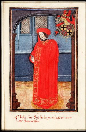 Mesire Lois Sig(neu)r de la Gruuthuse et Comte de Wincestre. Portrait of Lewis de Bruges, Lord of Gruuthuse, Prince of Steenhuijs, Earl of Winchester (c. 1422/7–1492), (alias Loys, Louis Lodewijk, van Gruuthuuse, etc.). Statuts, Ordonnances et Armorial de l'Ordre de la Toison d'Or (Statutes, Ordonnances and armorial of the Order of the Golden Fleece) Place of origin, date: Southern Netherlands; 1473. Added sections: Southern Netherlands; 1478 or shortly after and 1491 or shortly after Material: Vellum, ff. 86, 249x187 (167x106) mm, 23 lines, littera cursiva (lettre bourguignonne). French. Binding: 18th-century brown leather Decoration: 1 full-page miniature (170x115 mm) with border decoration; 92 miniatures (185/155x120/100 mm); 1 historiated initial (80x90 mm) with border decoration; decorated initials with border decoration (ff., Added section: miniatures ; 4 drawings for miniatures (not finished) Provenance: Presented in 1473 by Gilles Gobet, King of Arms of the Order of the Golden Fleece, to Charles the Bold, Duke of Burgundy and the other Knights during the Chapter of the Order held at Valenciennes; Treasure of the Golden Fleece, Brussls; taken away by the Treasurer C.-F. Humyn (d. 1735) or his daughter C.Ch. de Corte; by legacy to her daughter M.-L. de Corte, wife of Ph.-E. de Poederlé; purchased in 1781 at the Poederlé sale by G.-J- Gérard of Brussels; acquired in 1832 as part of the Gérard collection (no. A 27)